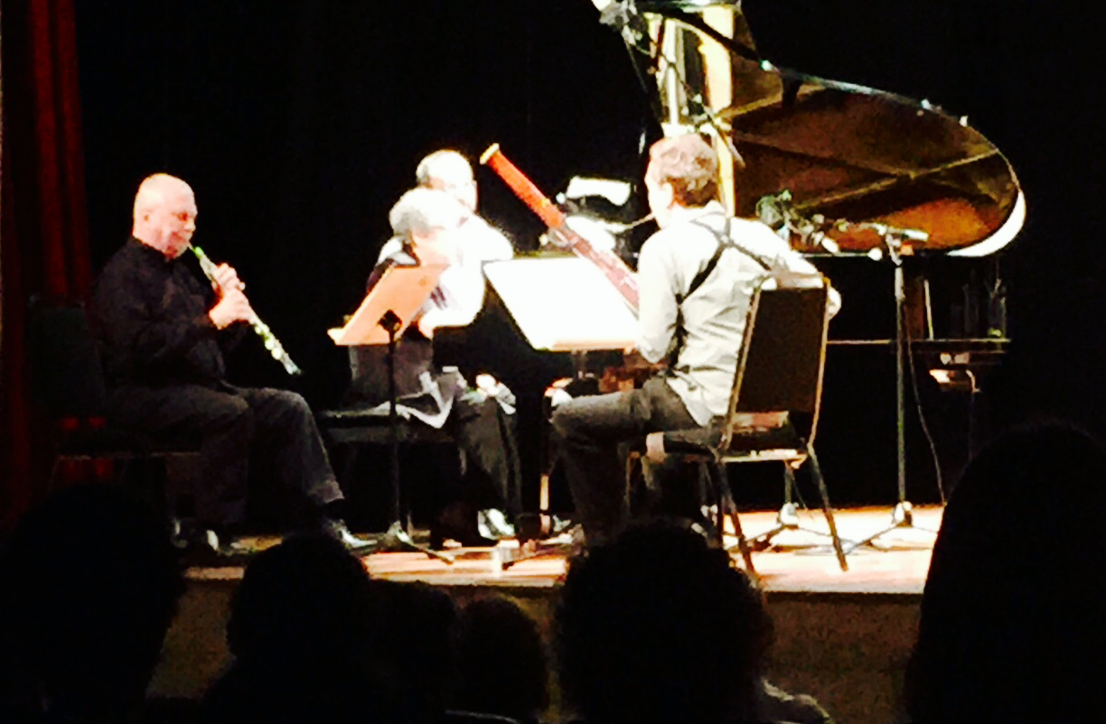 Trio Fany Solter